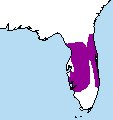 A map of the Florida Shrub-Jay Aphelocoma coerulescens in Florida, USA. Reference: National Geographic Society: Field Guide to the birds of North America. 4th fully rev. and updated Ed., 2002